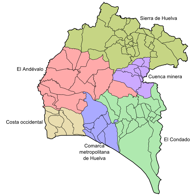 Political Map of regions of Huelva, Spain